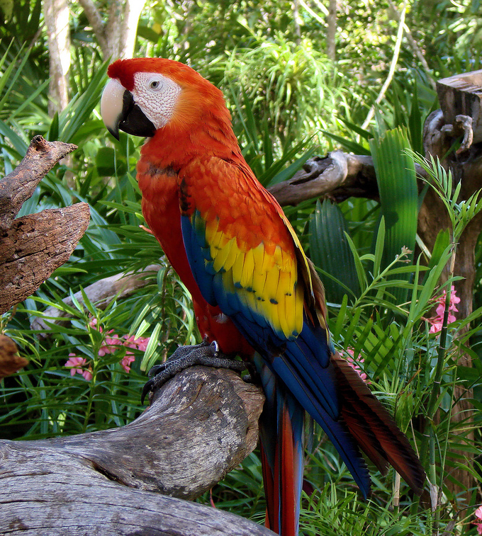 Scarlet Macaw (Ara macao) at Coco Reef, Mexico.